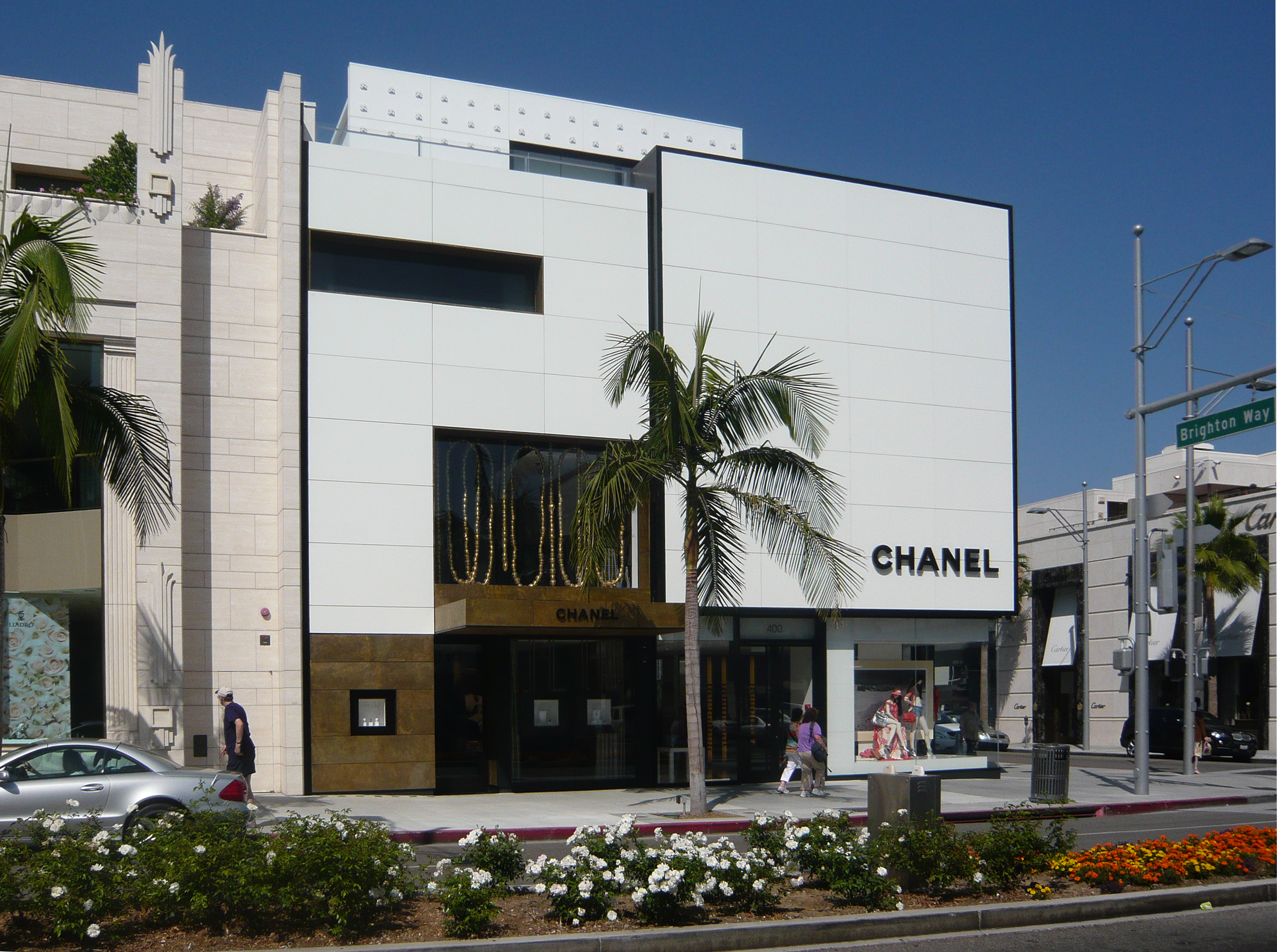 Chanel boutique on Rodeo Drive (Beverly Hills, California)